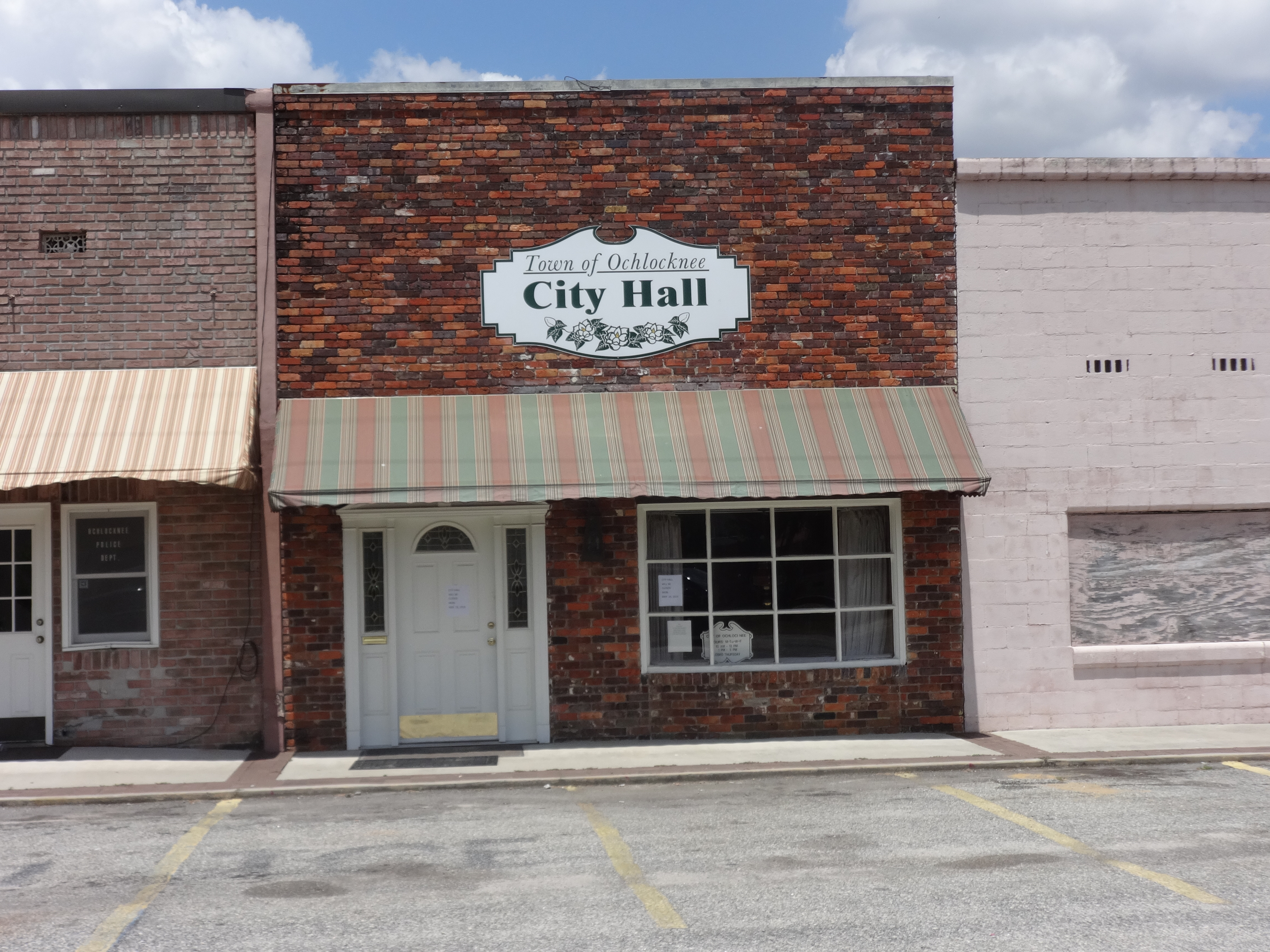 Ochlocknee City Hall, E Railroad St., Ochlocknee, Thomas County, Georgia